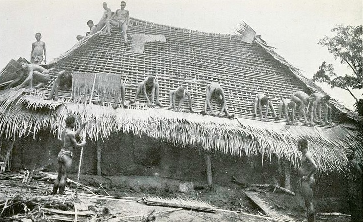 Thatching with palm leaf mats, among the Igbo people.